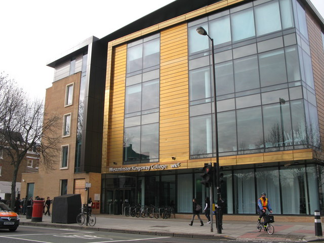 Westminster Kingsway College, Gray's Inn Road, WC1. Shows the location of 1223730. The college offers a wide range of further, adult and higher education programmes, which are available for people of all ages from sixteen years upwards